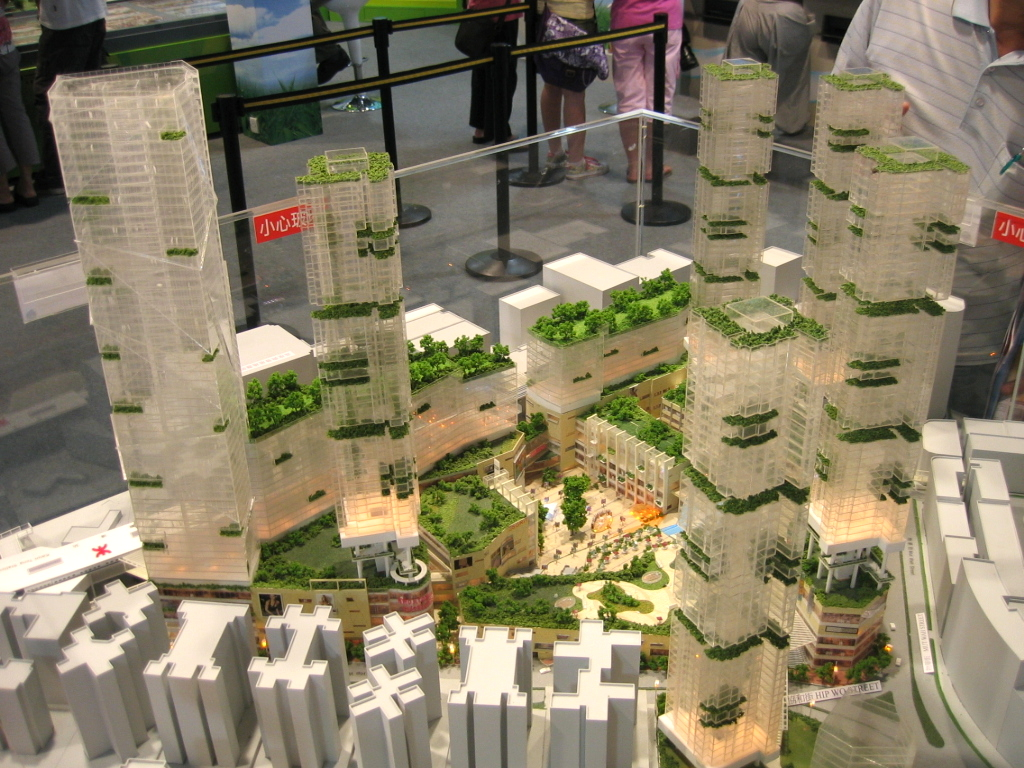 WDA Group Kwun Tong Town Centre Project Model